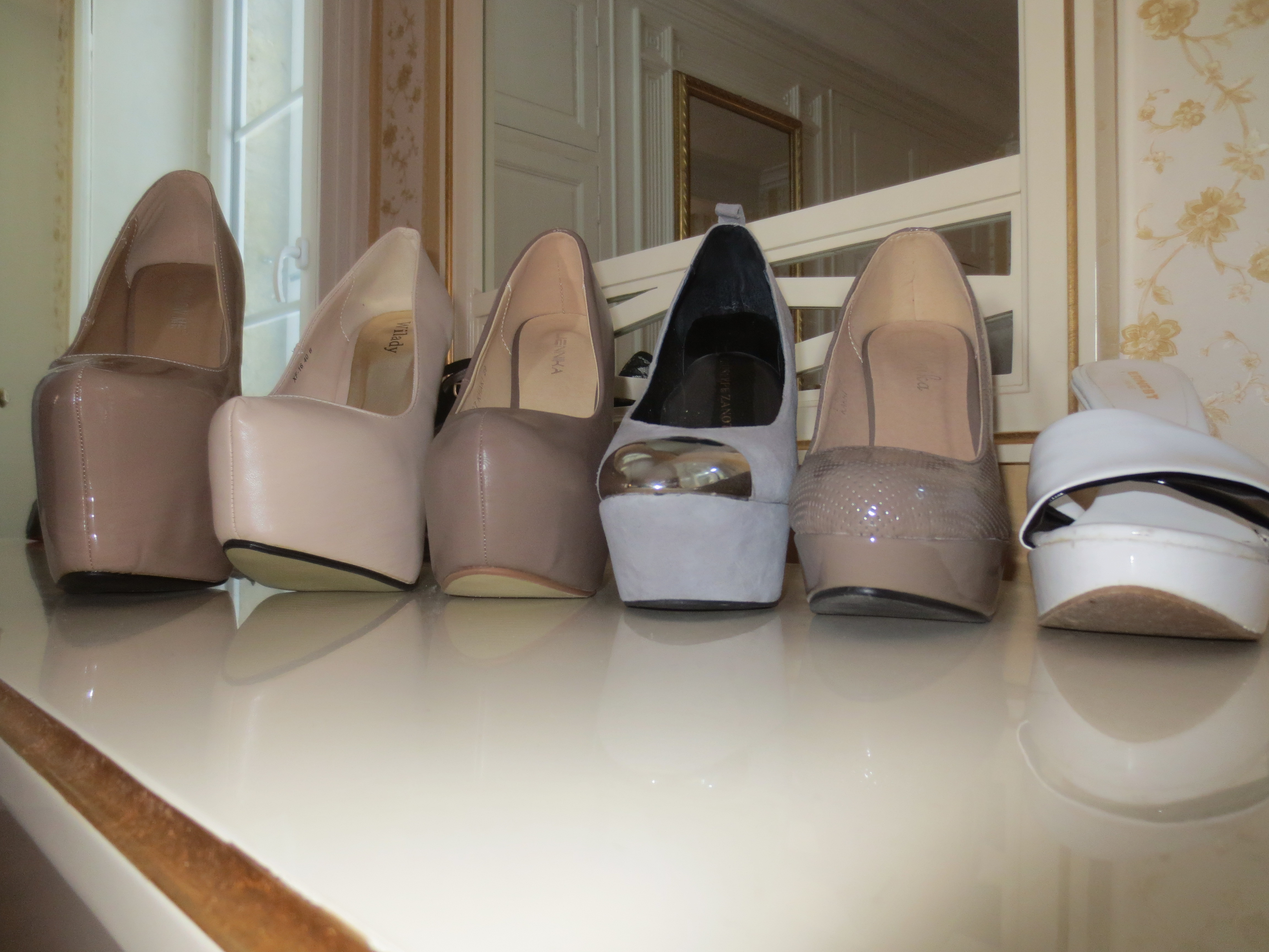 Platform shoes with A) 19 cm Heel - 8.5 cm Platform / B)-17.0 - 6.5 / C) 16.0 - 4.5 / D) 16.0 - 4.0 / E) 15.5 - 3.5 / F) 13.5 - 2.5; Front View